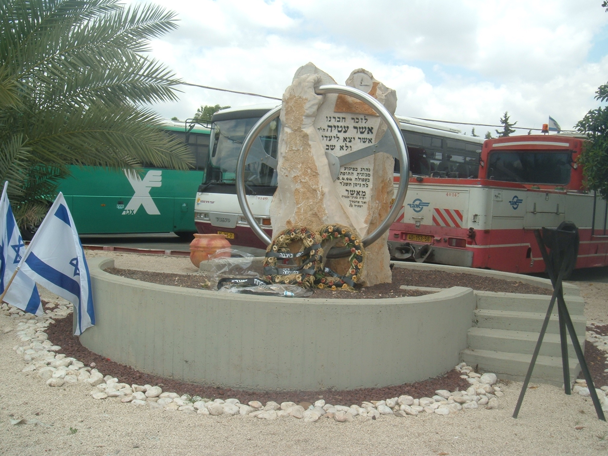 monument in memory of Egged driver Asher Atiya, murdered in a suicide car bombing in April 1994, situated in the central bus station in Afula